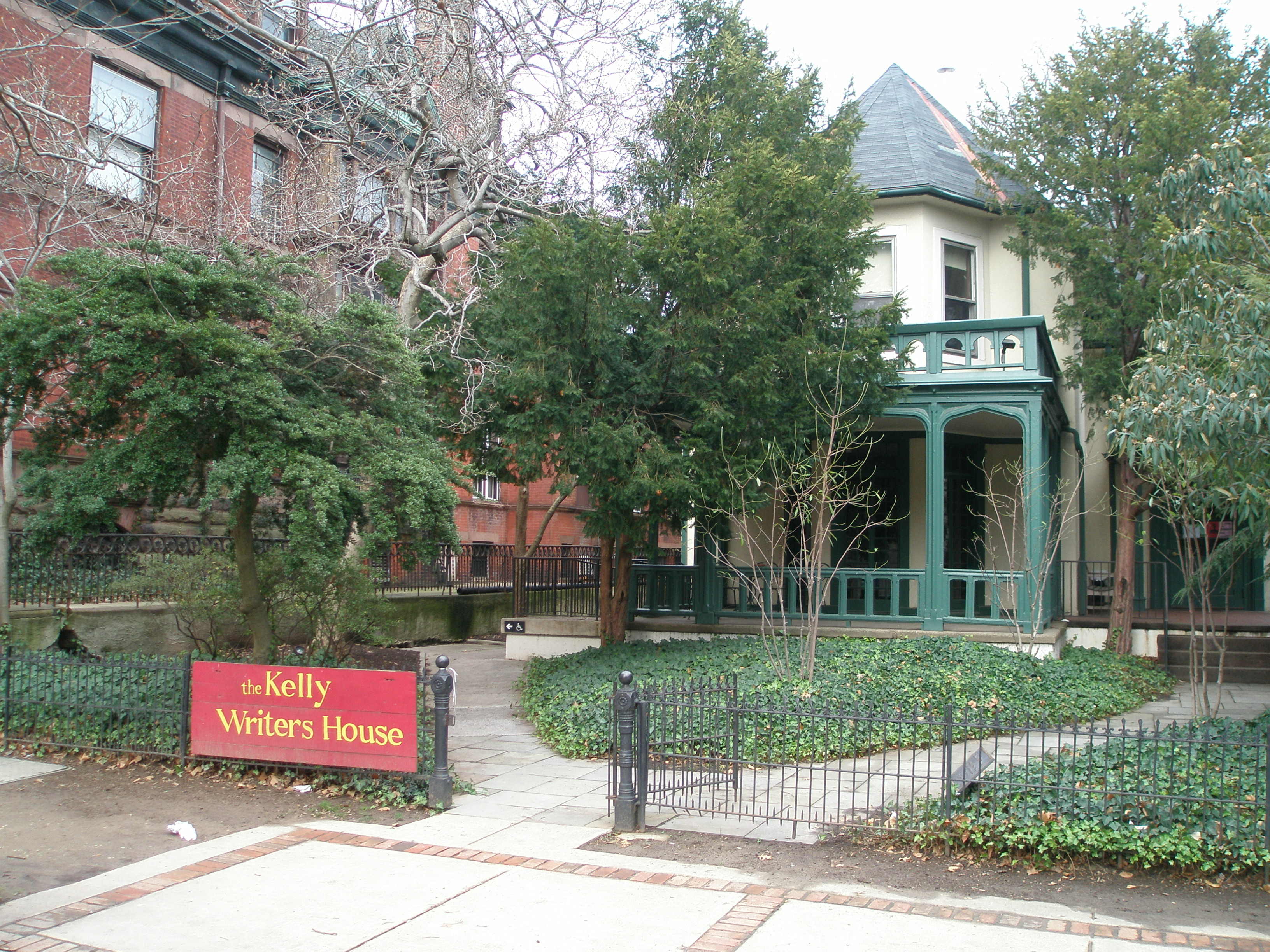 Kelly Writers House at the University of Pennsylvania